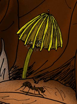 Reconstruction of the mushroom Palaeoagaracites antiquus, its parasite, Mycetophagites atrebora, from Cretaceous Burma